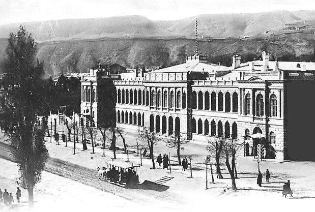 Horse tramway ("konka") and the Viceregal Palace in Golovin Avenue, Tiflis.